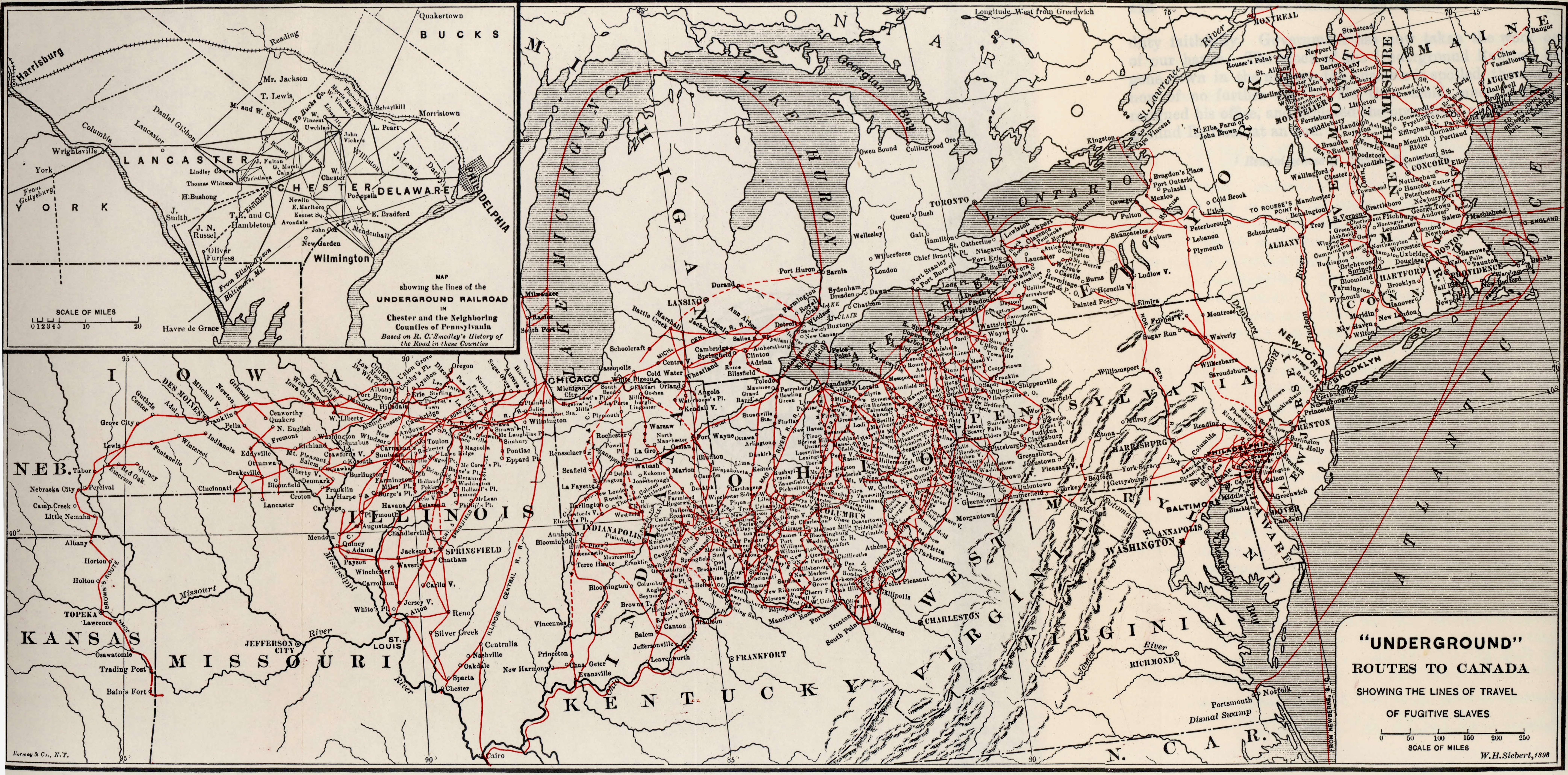 "Routes of the Underground Railroad, 1830-1865." Whole map of the underground railroad. The Underground Railroad was not an actual railroad, but a network of secret routes and safe houses used by 19th-century black slaves in the United States to escape to free states and Canada.